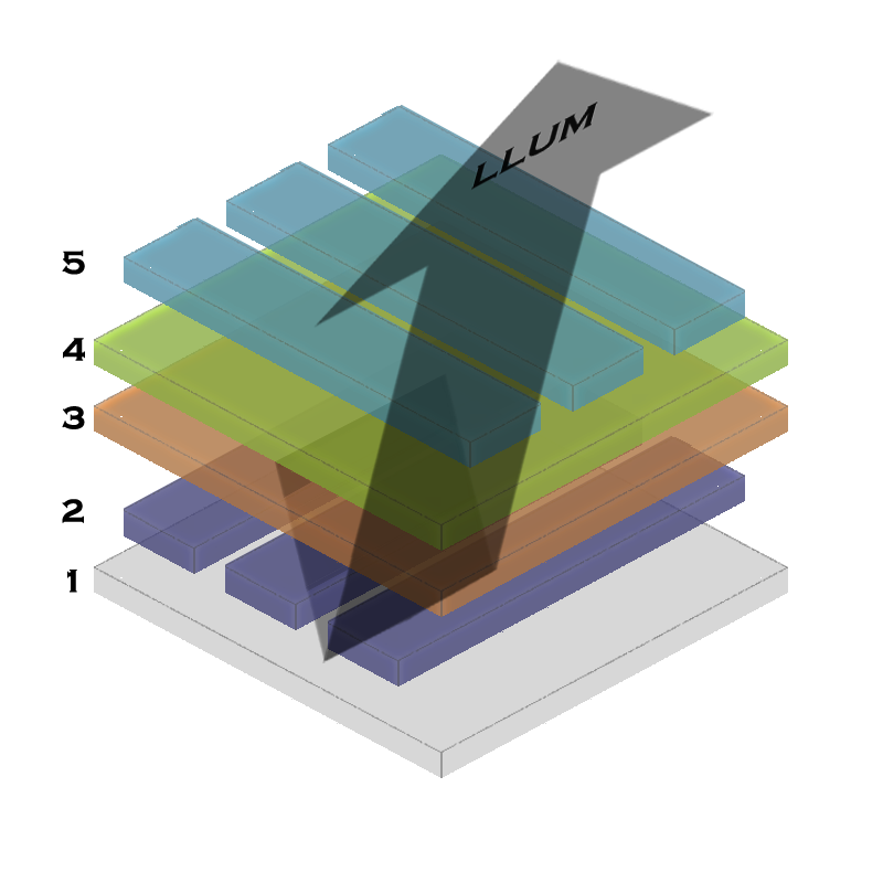 Top-Emitting OLED